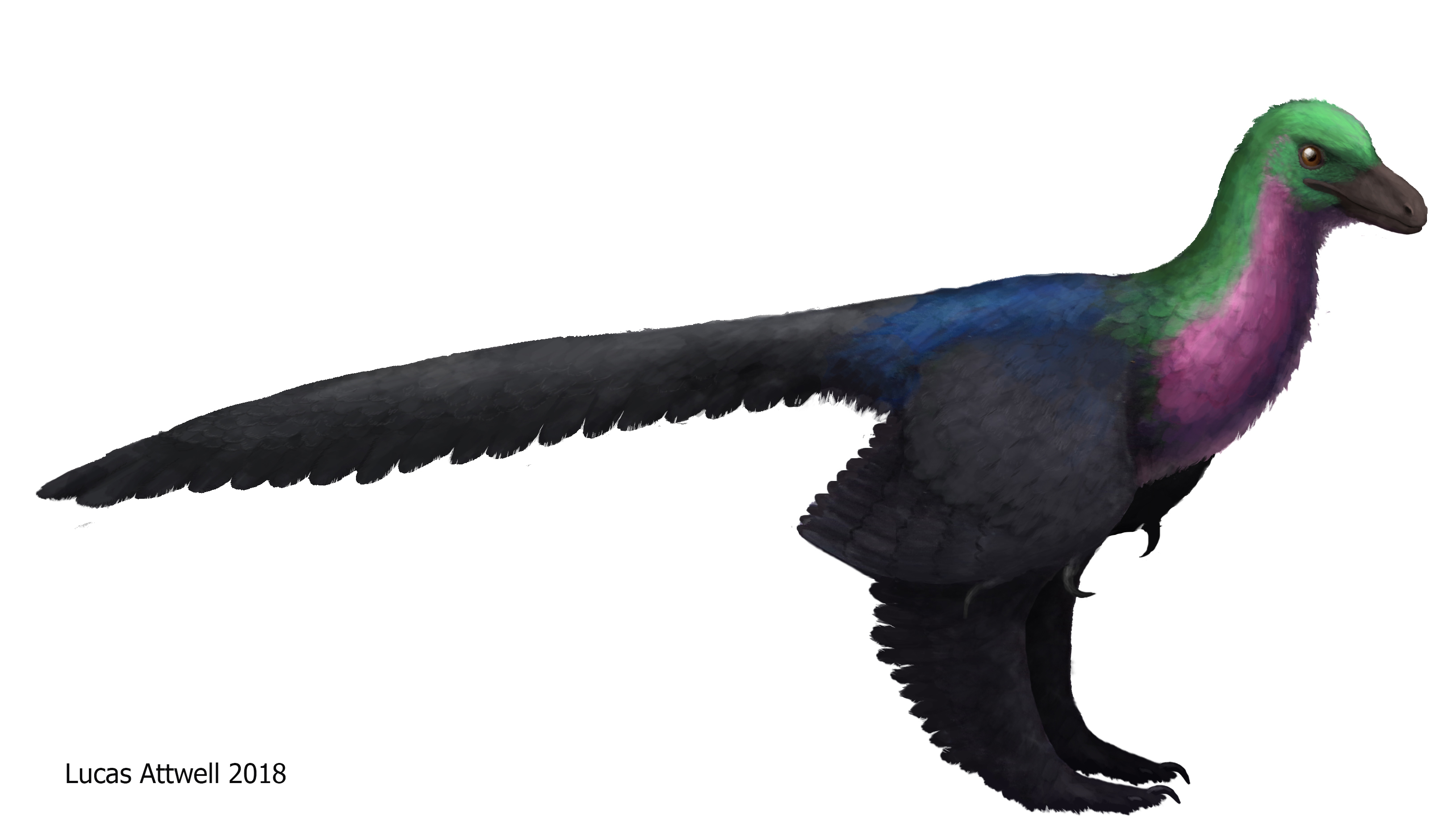 Life restoration of Caihong juji